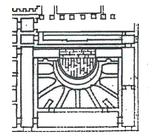 Plan of the ancient odeon in Plovdiv. This image is a derivative of the archeological plan used in the album Philippopolis by Elena Kesyakova and Dimitar Raytchev.